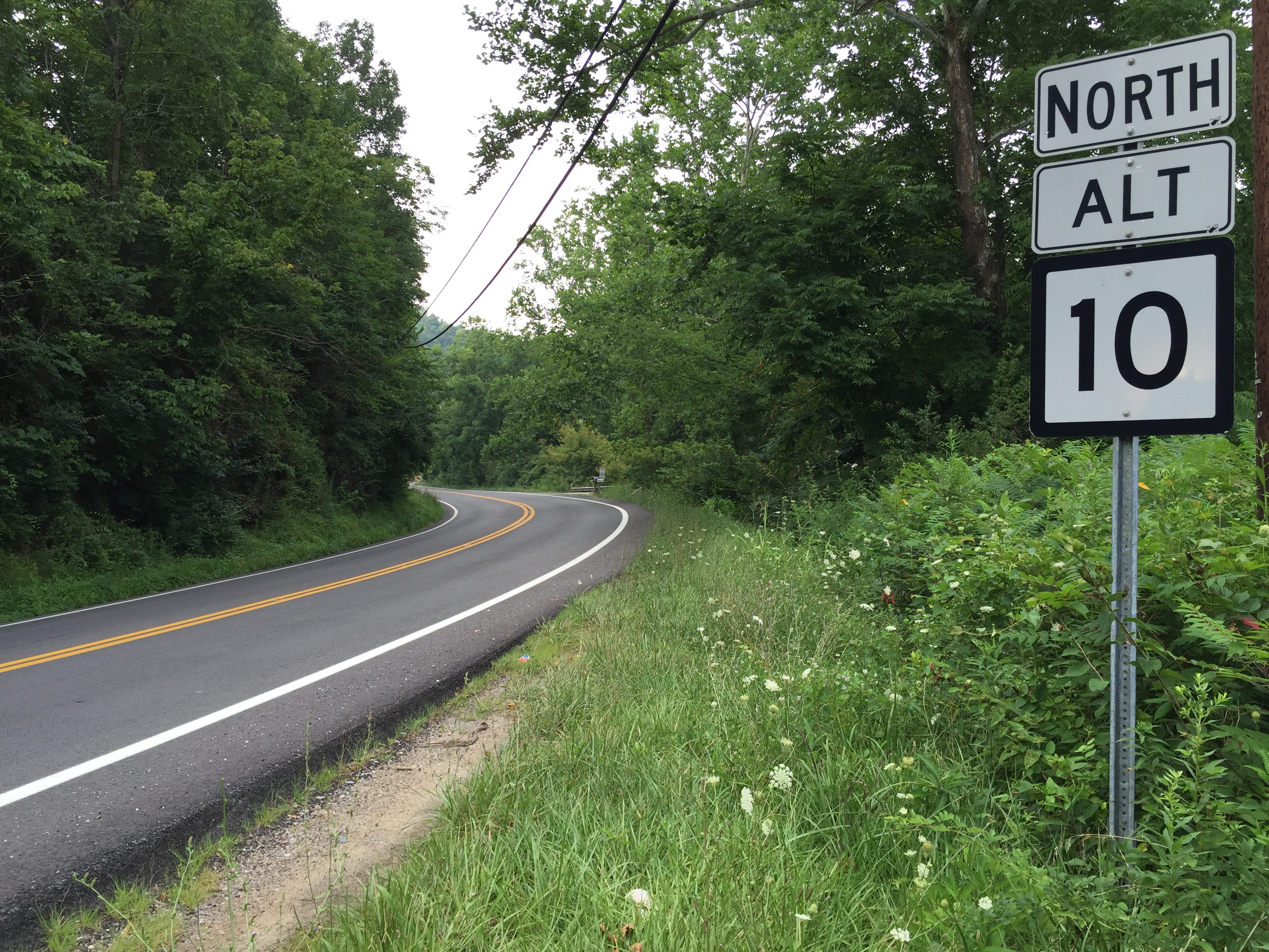 View north along West Virginia State Route 10 Alternate (Davis Creek Road) at West Virginia State Route 10 (Sixteenth Street Road) in Melissa, Cabell County, West Virginia